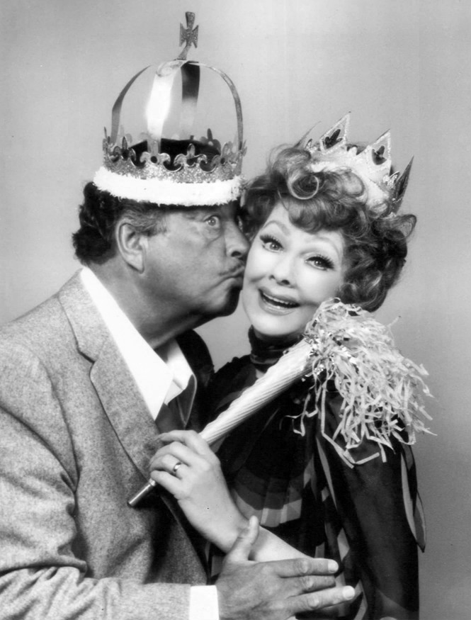 Photo of Jackie Gleason and Lucille Ball from a 1975 Lucille Ball television special "Tea for Two" (telecast Dec. 3, 1975)